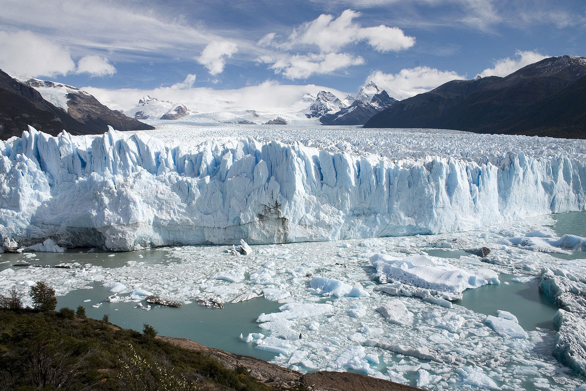 Perito Moreno Glacier, in Los Glaciares National Park, southern Argentina